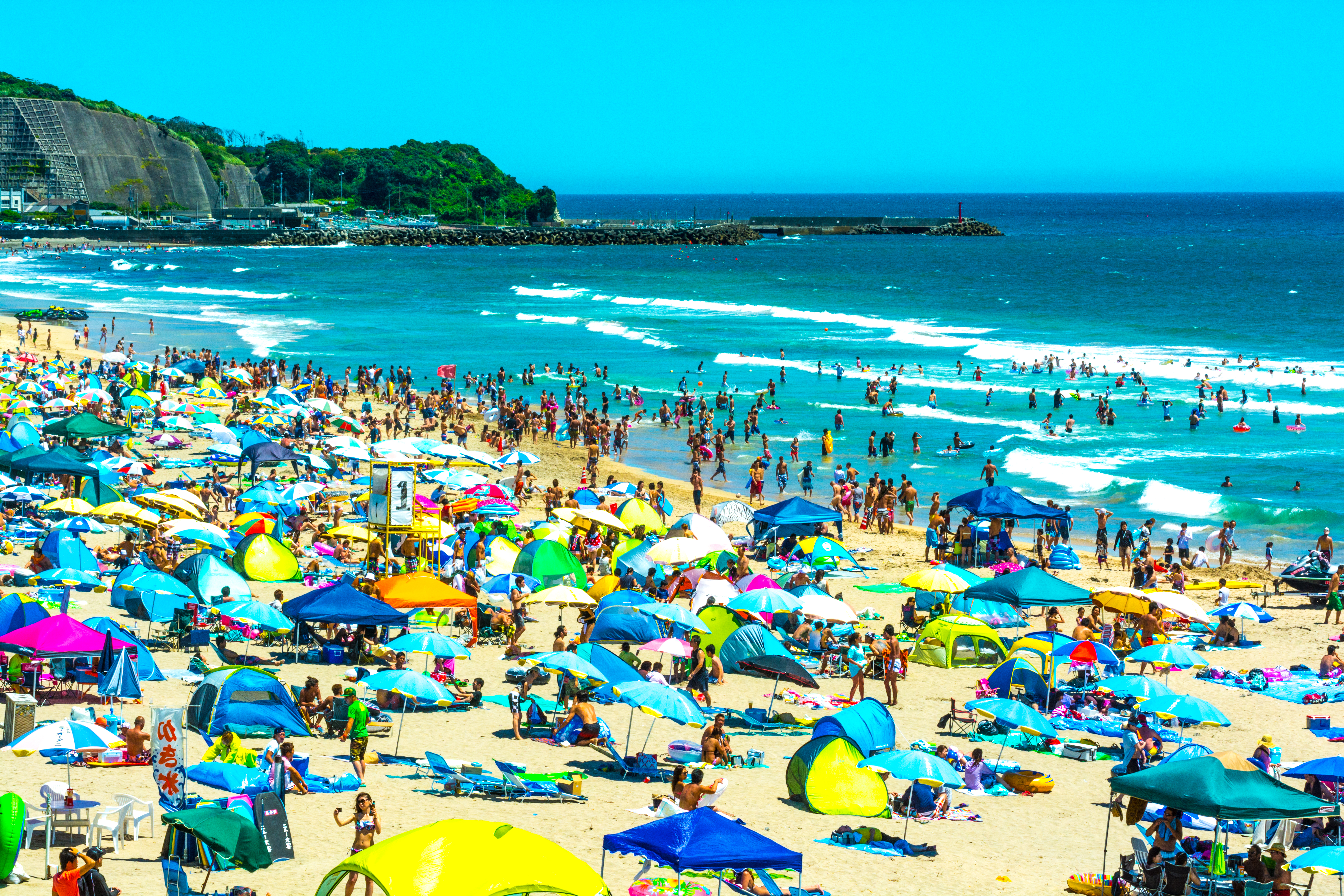 Visitors and colorful sunshades at Onjuku Beach, Onjuku Town, Chiba Prefecture, Japan